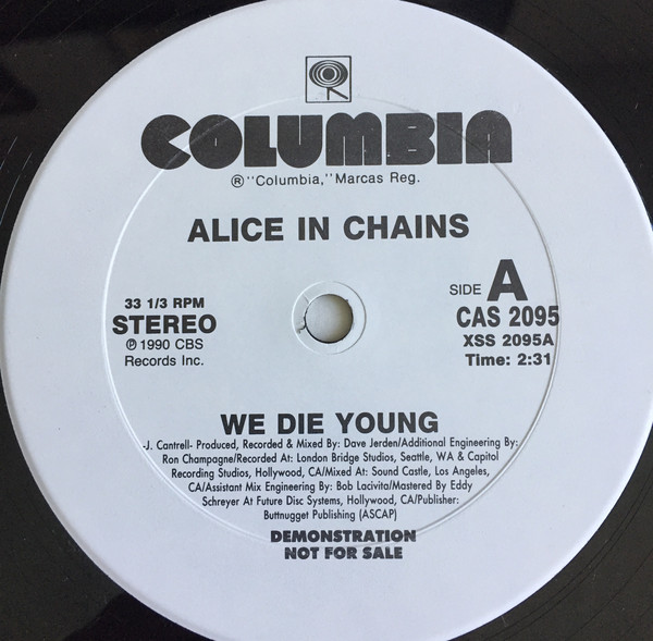 Alice in Chains - We Die Young, EP